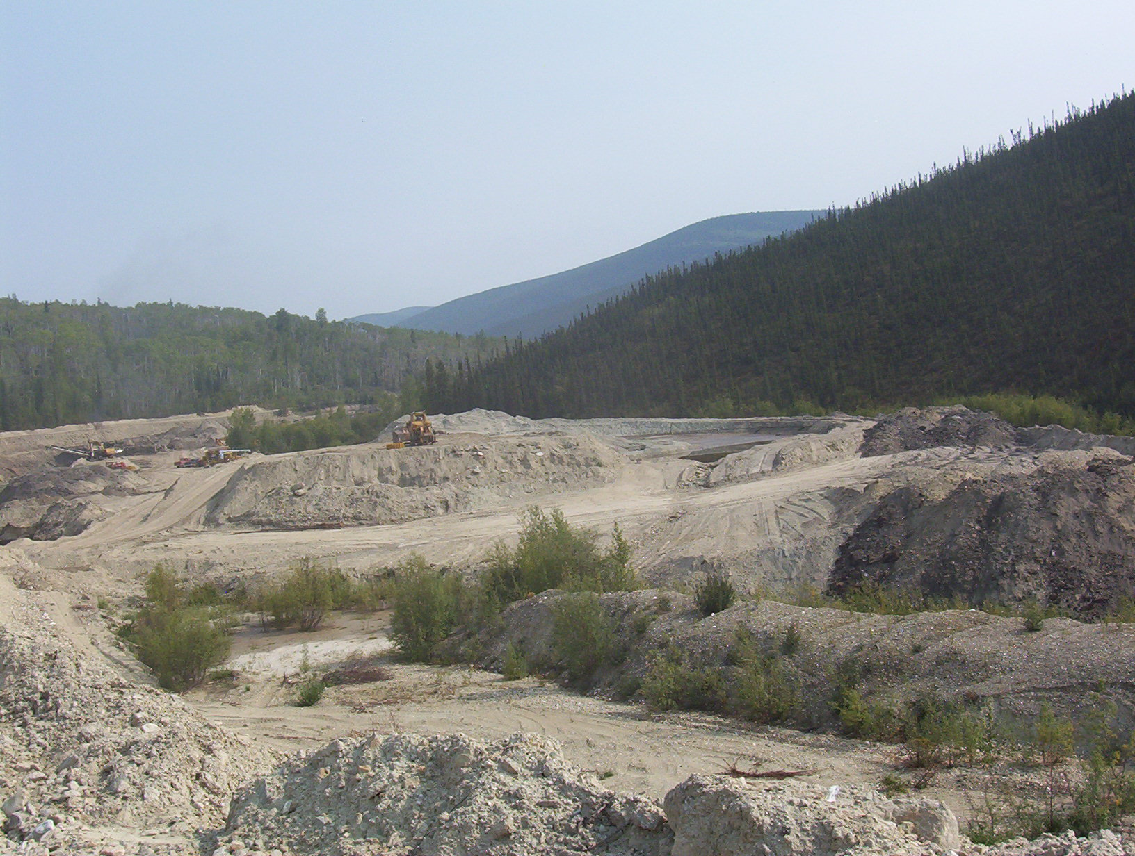 Today`s gold mining at Klondike, Yukon, Canada